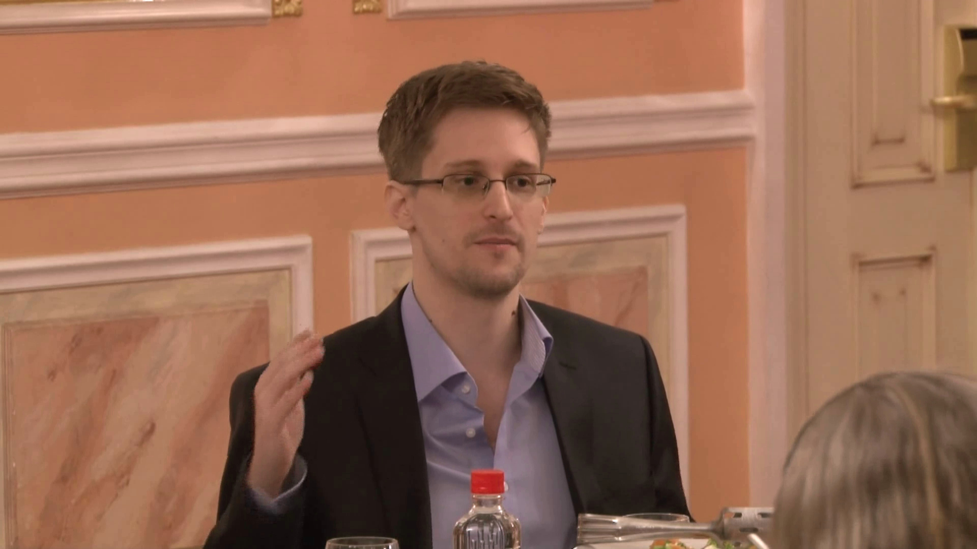 Edward Snowden (1983–) Alternative names Ed Snowden / Edward Joseph SnowdenDescriptionAmerican activistComputer professional who leaked classified information from the National Security Agency (NSA), starting in June 2013.Date of birth 21 June 1983 Location of birth Elizabeth City, North Carolina, United States of America Work period2001-presentWork location Previously United States of America, currently RussiaAuthority control : Q13424289 VIAF: 307157574 ISNI: 0000 0004 2843 1865 LCCN: no2013111241 MusicBrainz: e4029883-c074-4e1c-add4-c35d73edb79f GND: 104933289X WorldCat creator QS:P170,Q13424289